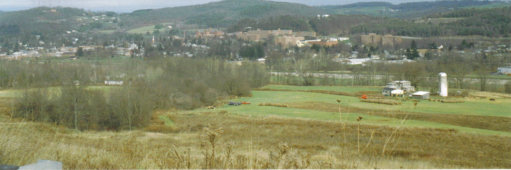 a A panoramic picture of Mansfield, PA taken on Thanksgiving 2006 from U.S. Route 15.